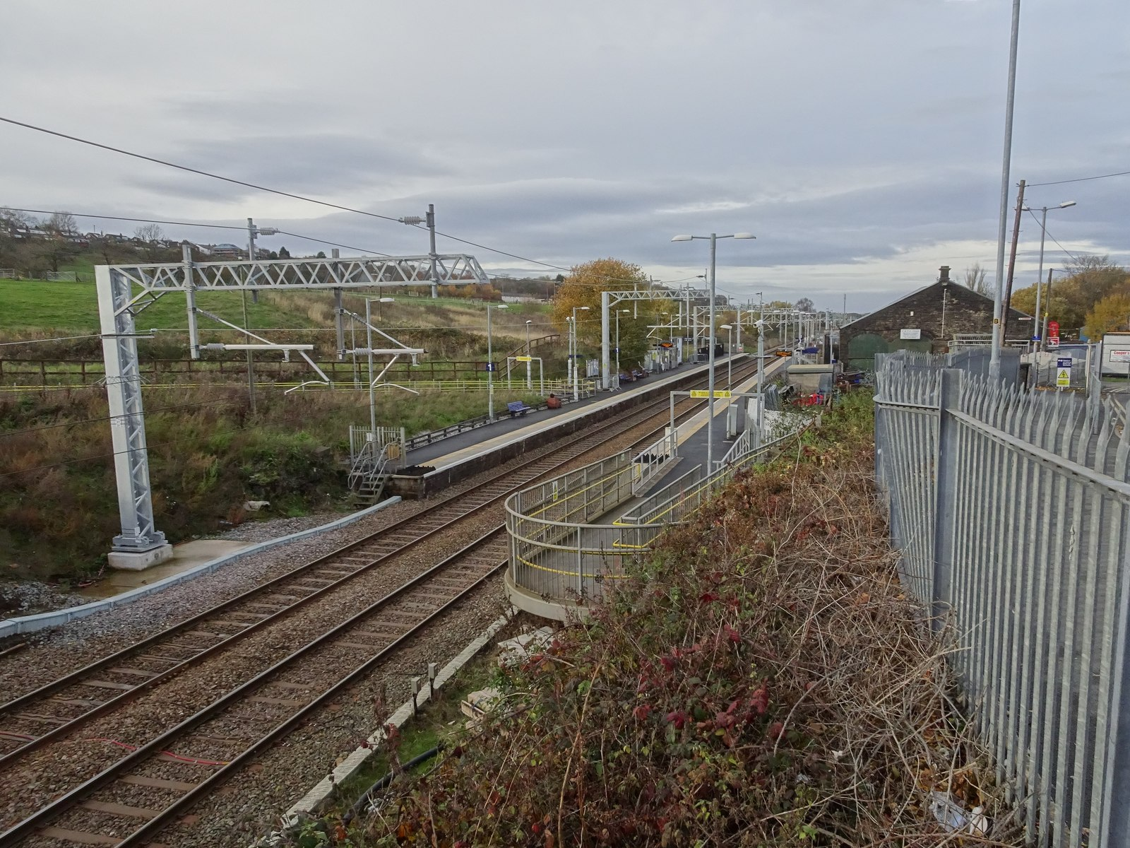 Blackrod railway station, LancashireOpened in 1841 by the Bolton and Preston Railway, later part of the Lancashire & Yorkshire Railway. This station was formerly the junction for the short branch line to Horwich. View north west towards Preston, shortly after the line was electrified and the footbridge removed.